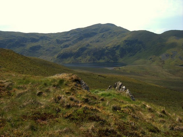 Cwm Llygad Rheidol. Glacial hollow with tall cliffs and a reservoir on the north face of Pumlumon Fawr.